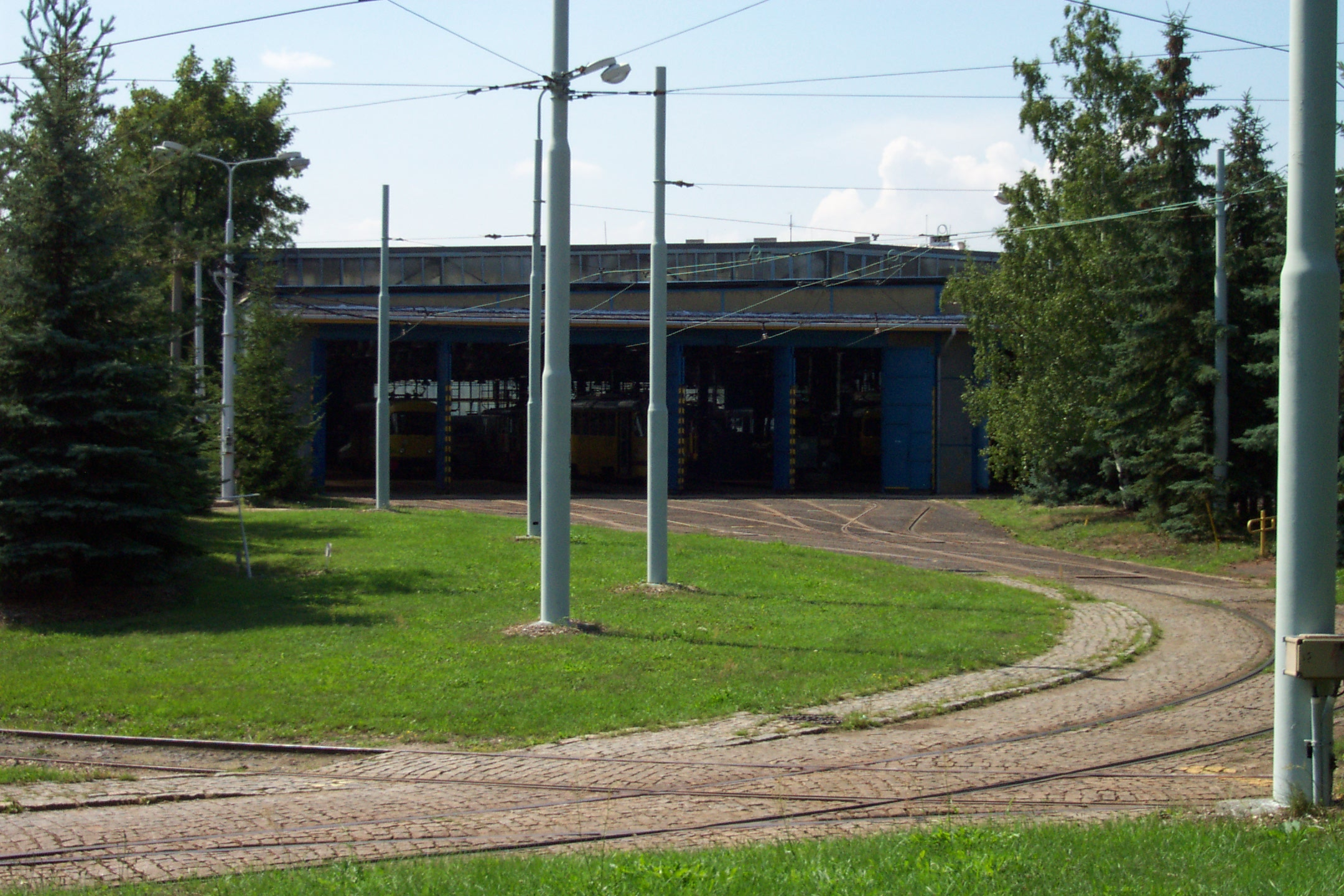 Litvínov, tram depot